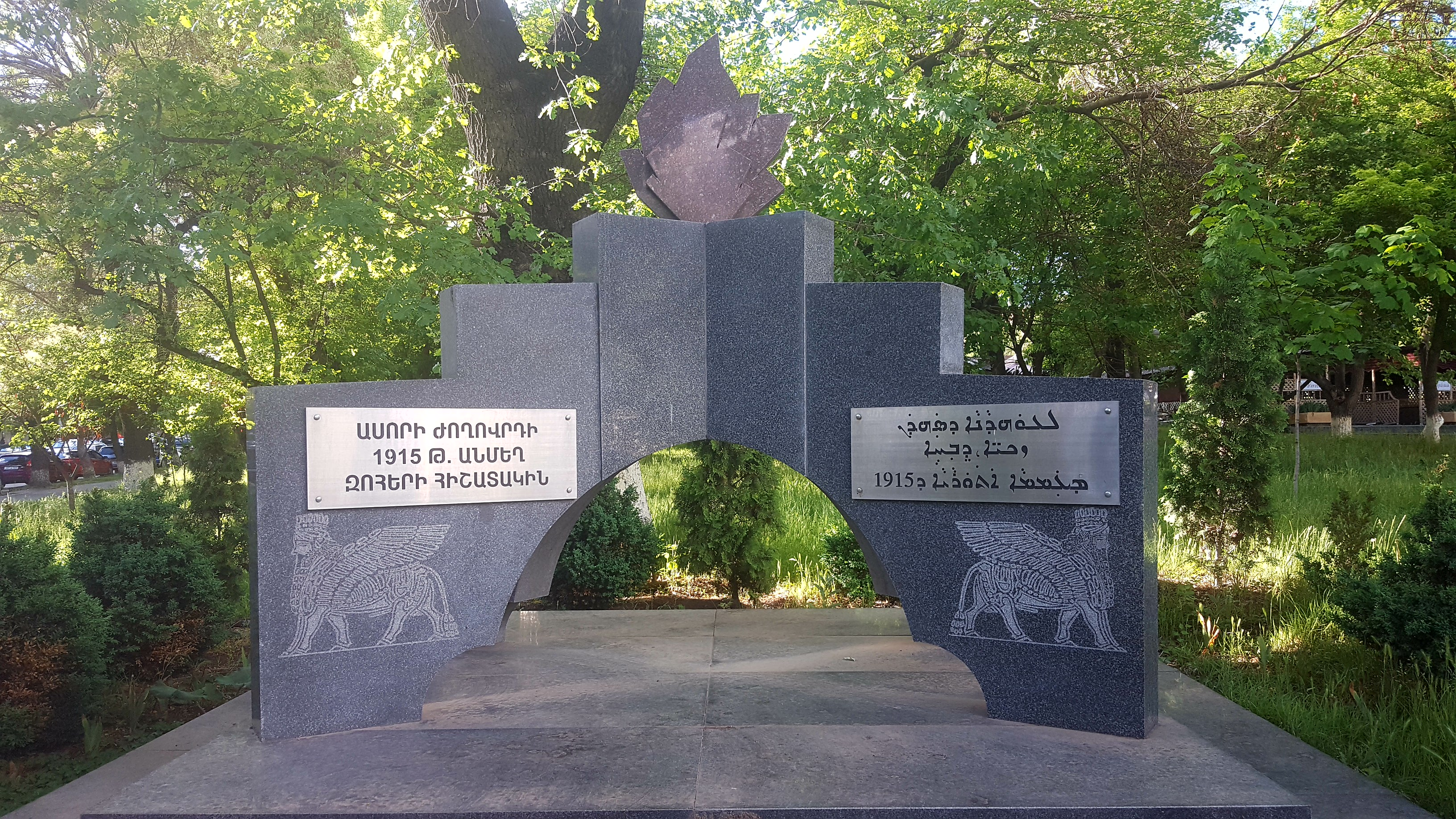 Armenia Yerevan Assyrian Genocide Memorial